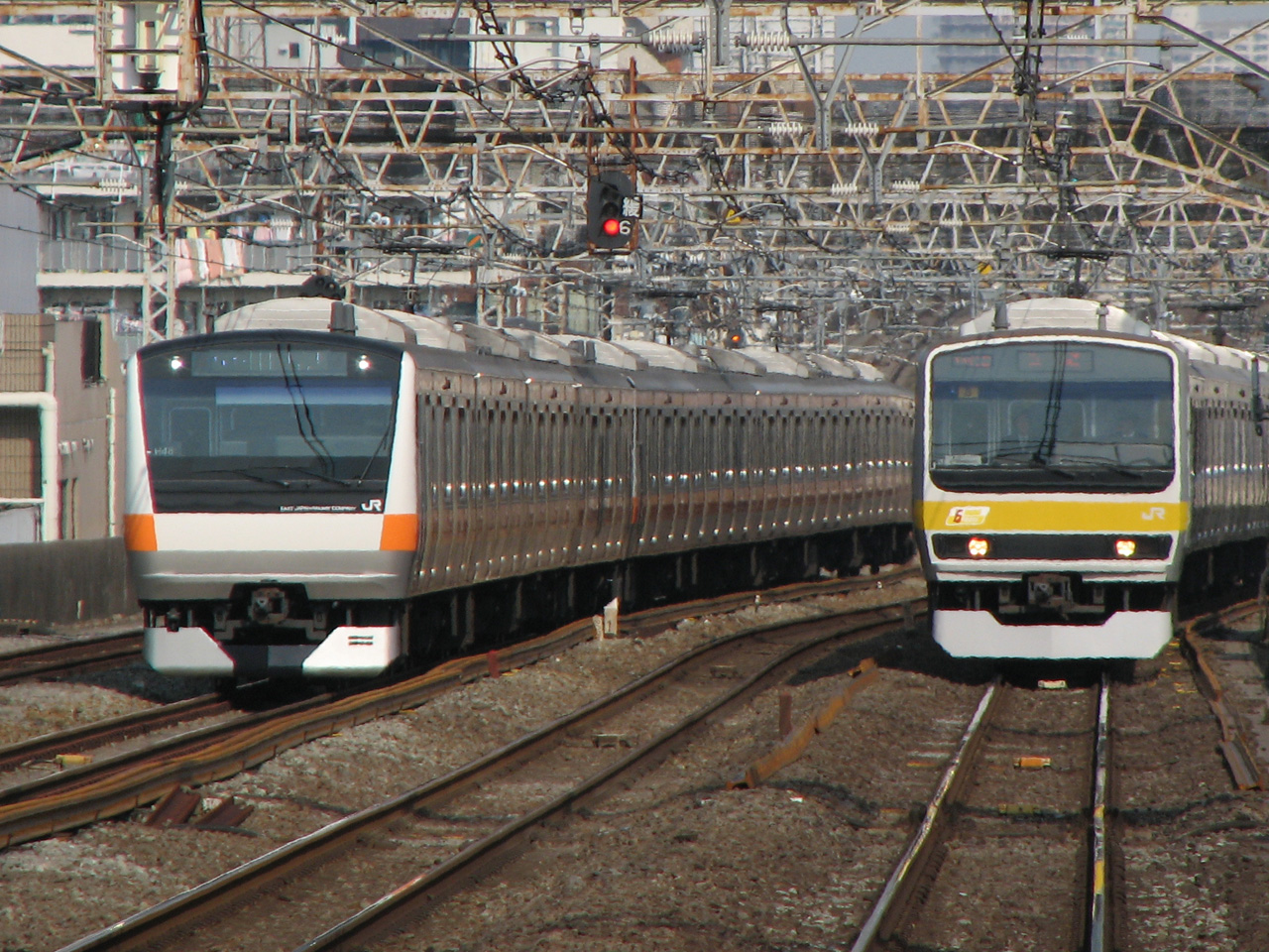 JR East Chuo Line (Koenji - Asagaya)